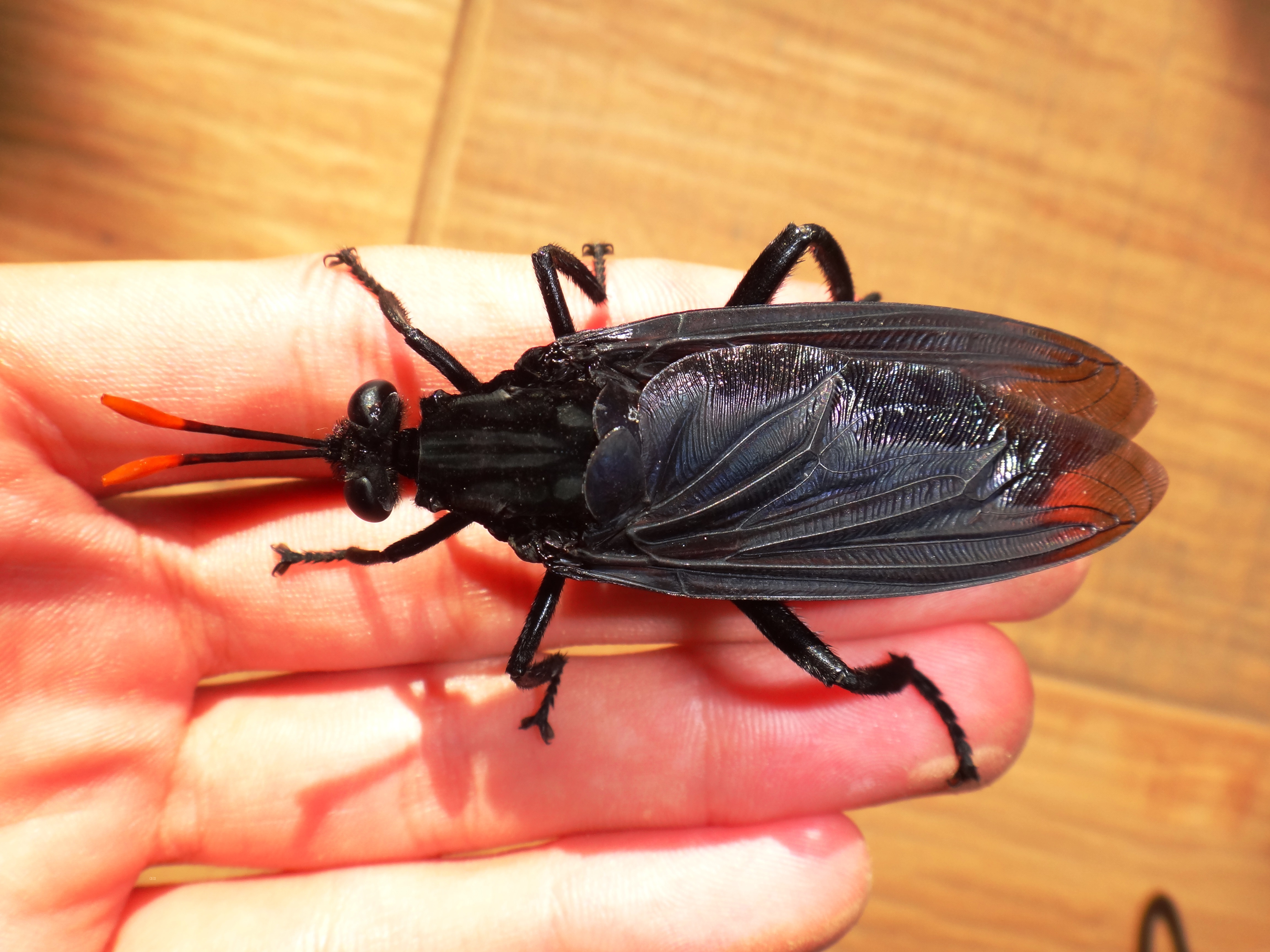 This is the largest fly on Earth planet. Grouped in the order Diptera, family Mydidae, specie Gauromydas heros.